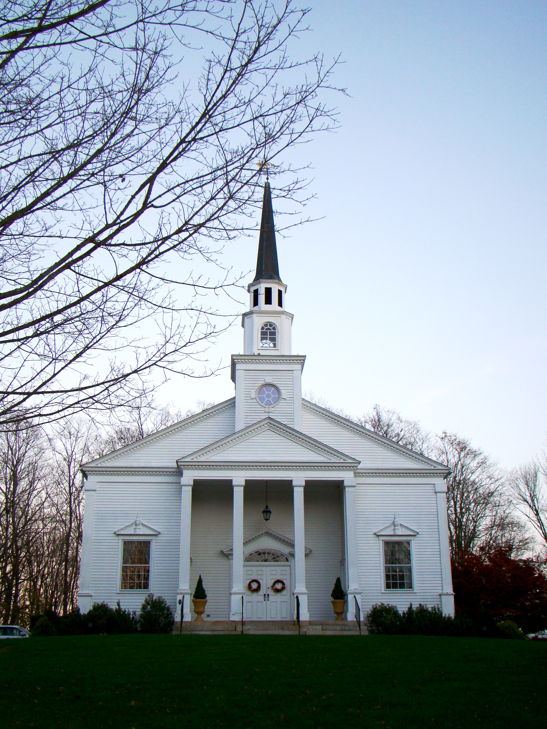 Listed on NHPS on April 10, 1998